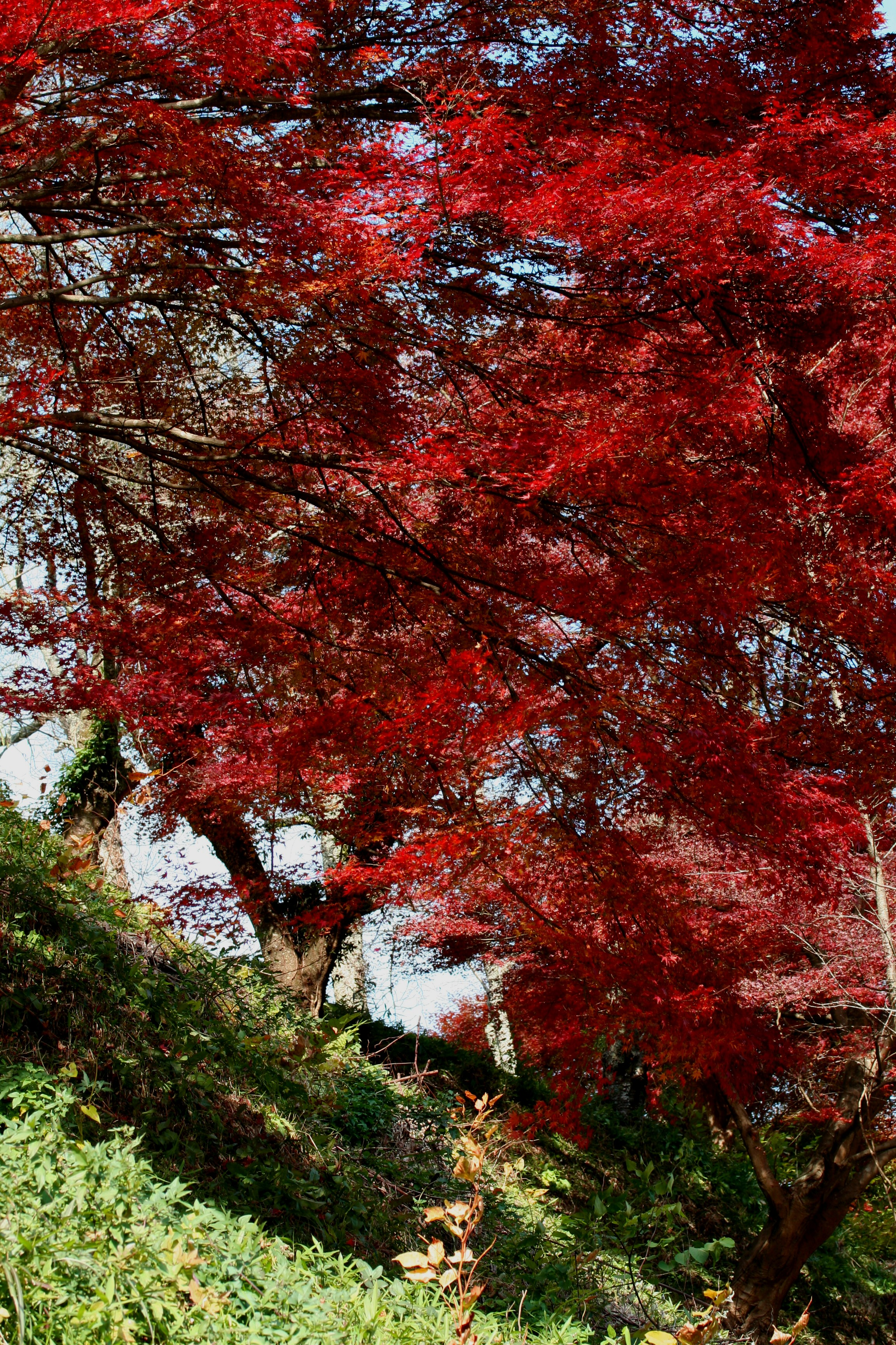 Fall Maples in Nara, Japan